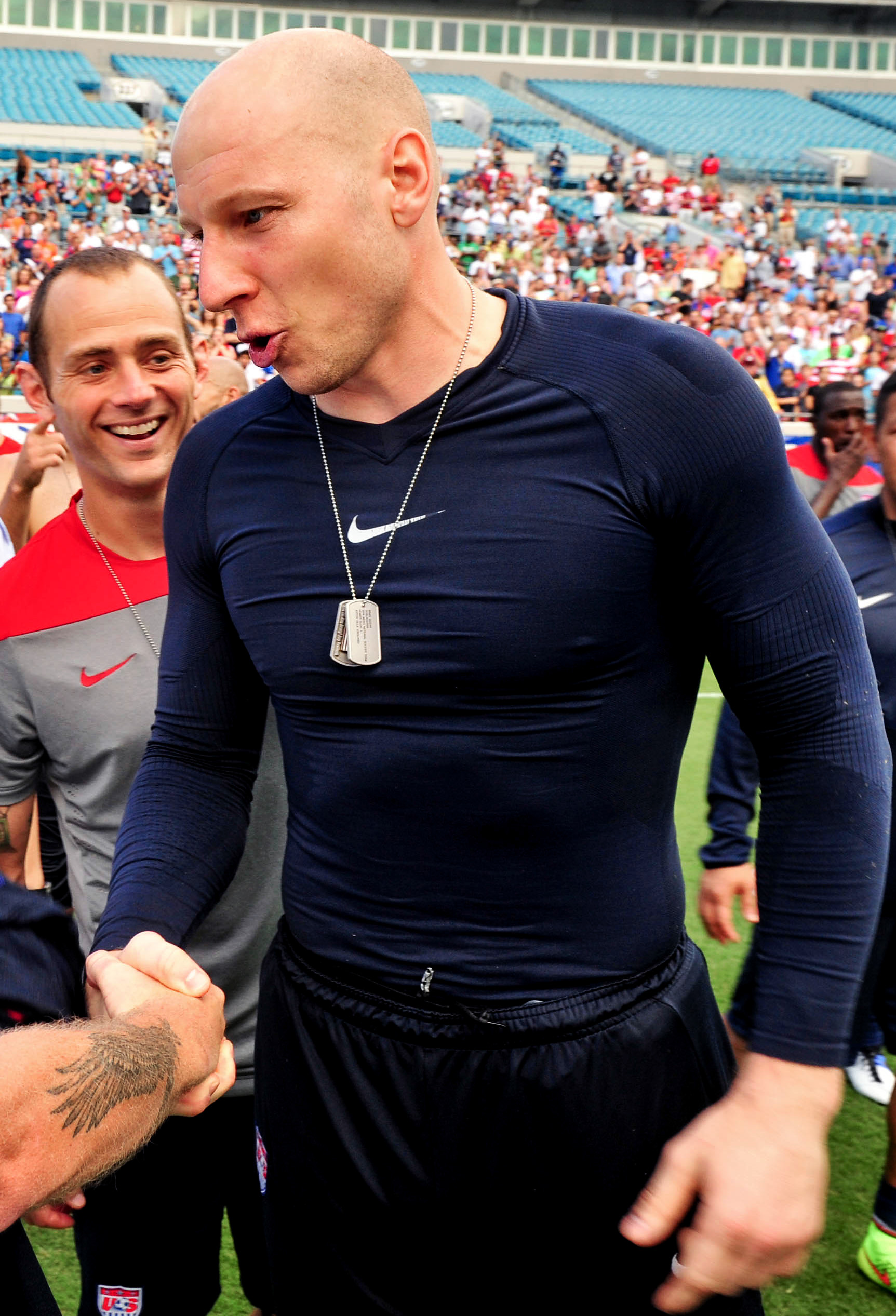 A soldier shakes hands with a member of the U.S. Men's National Soccer Team during a dog tag ceremony at Everbank Stadium, Jacksonville, Fla., June 6, 2014. U.S. Navy photo by Petty Officer 2nd Class Marcus L. Stanley